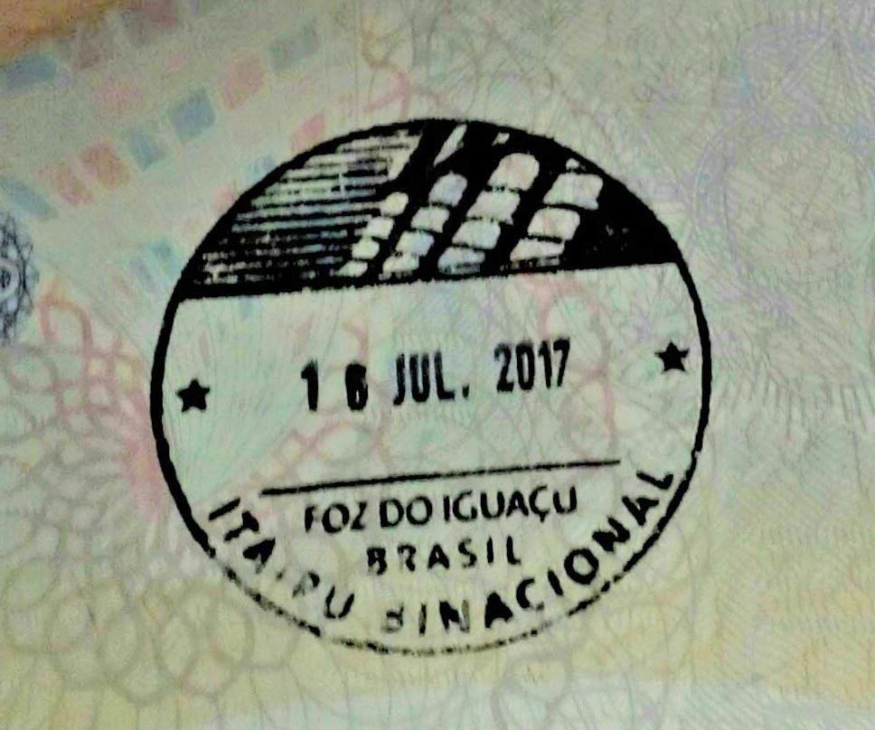 Passport stamp issued when visiting the Itaipu Dam Power Plant (Brazil/Paraguay)